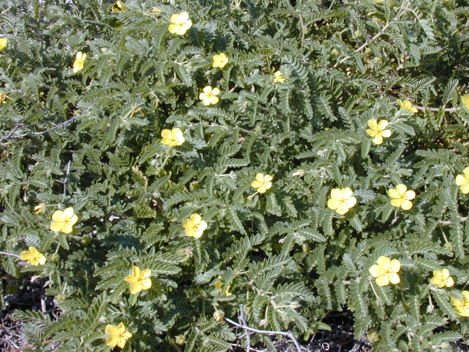 Tribulus cistoides (flowers and leaves). Location: Maui, Kanaio beach